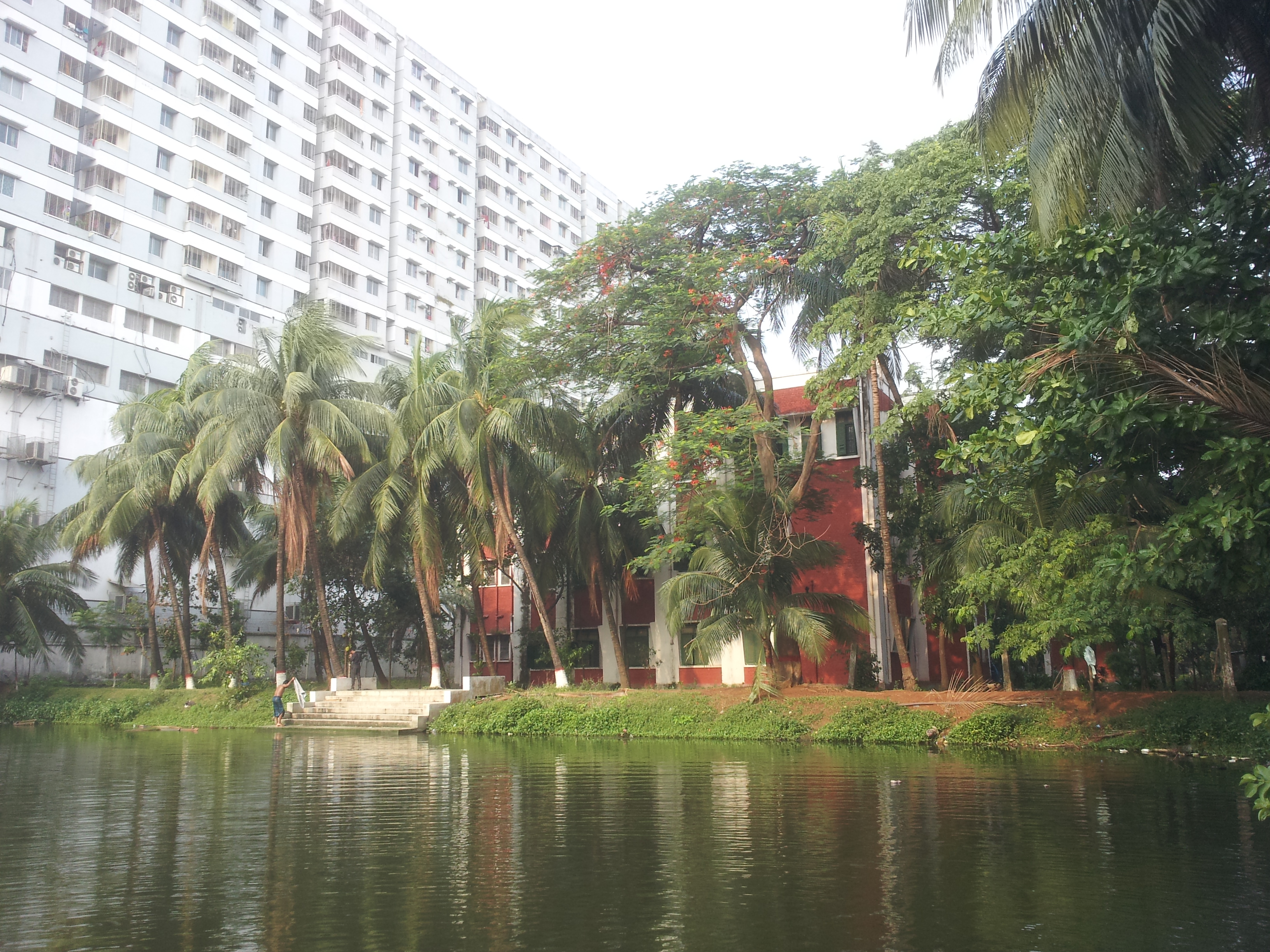 South Hostel, Dhaka College, Dhaka.